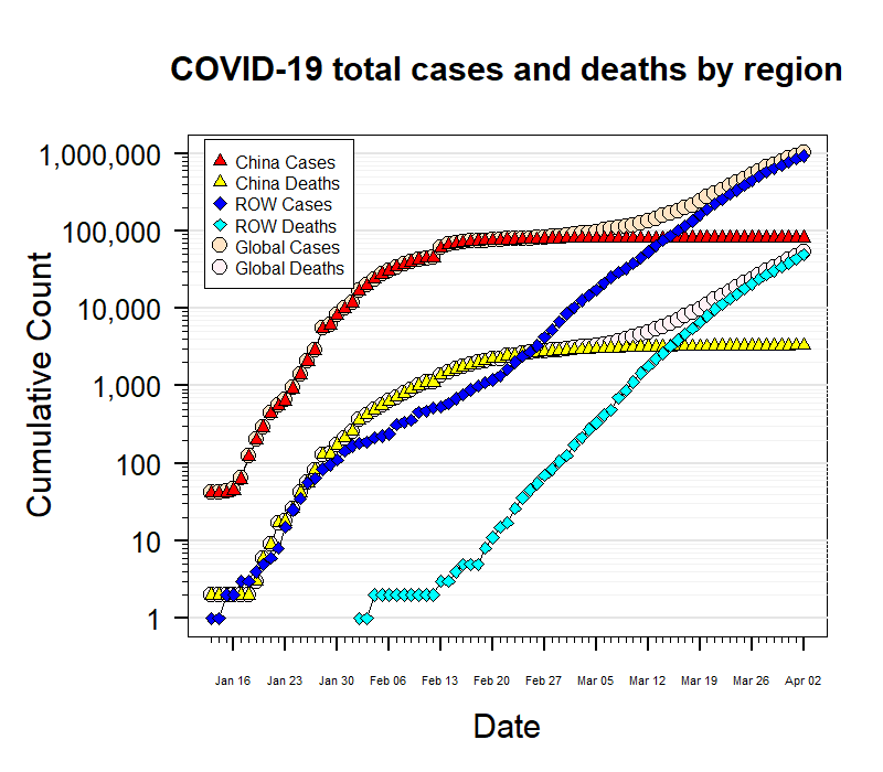 Confirmed cases and deaths reported in Mainland China and the rest of the world (ROW). Created using data as per table on